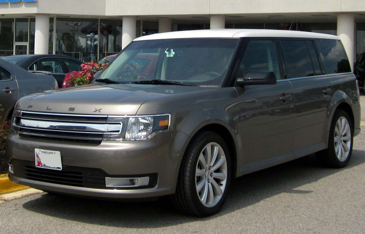 2013 Ford Flex photographed in Silver Spring, Maryland, USA.